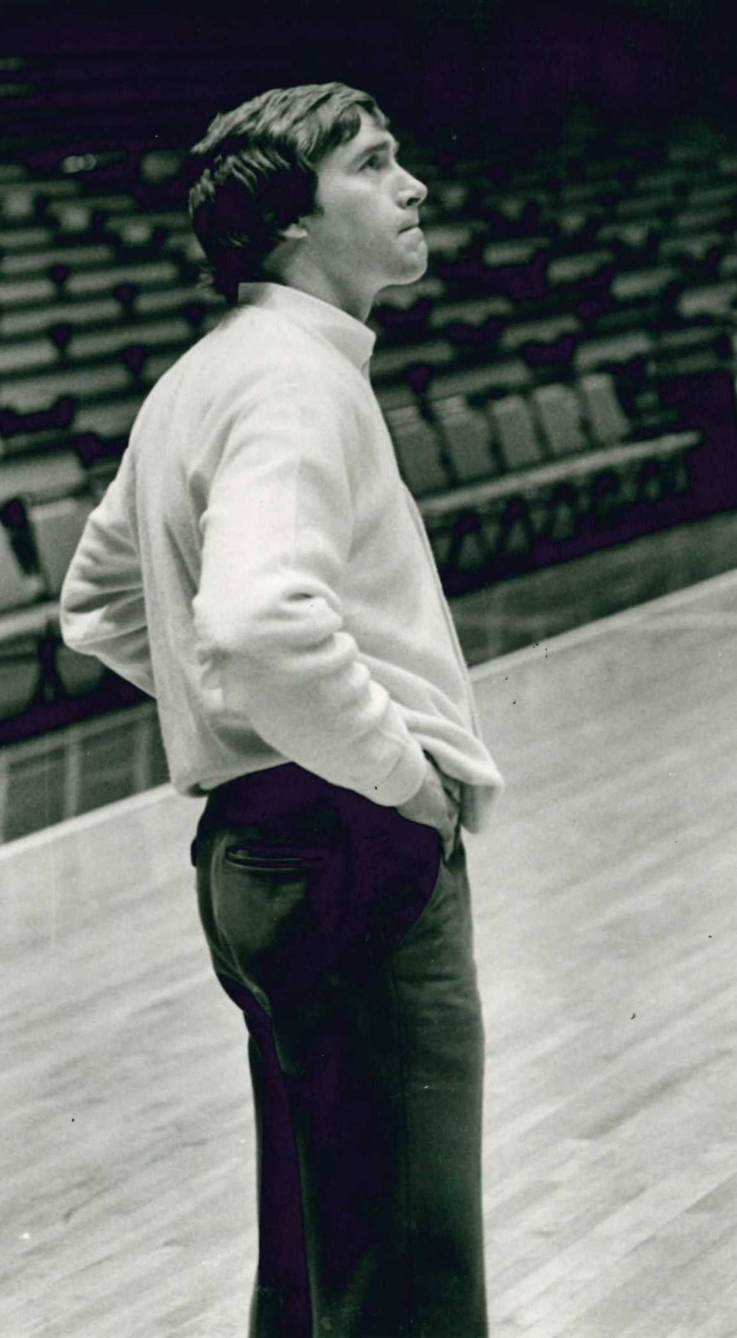 Basketball Coach Jim Rosborough at the University of Iowa 1980